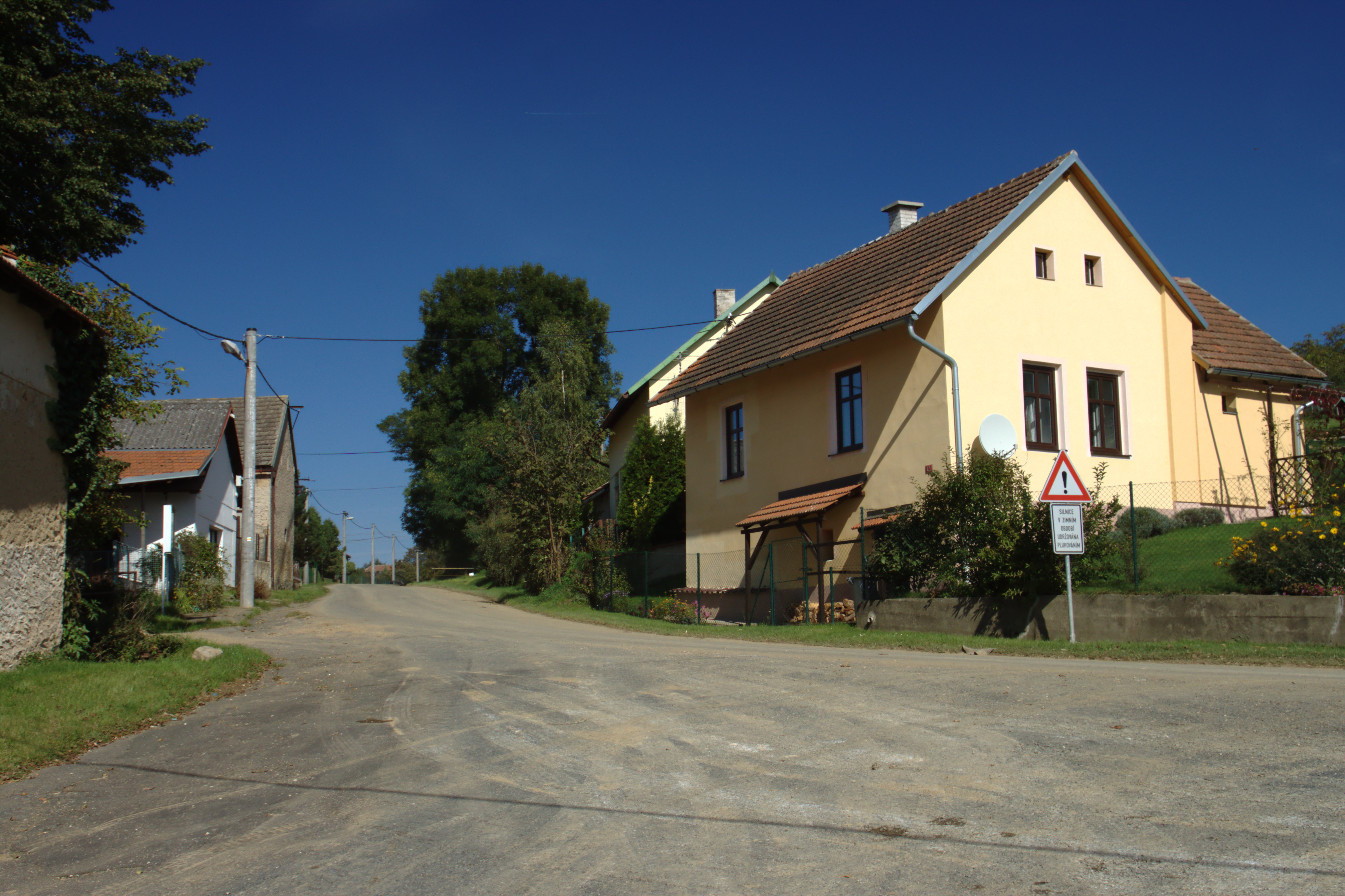 A crossroad near a common in Vranice (Zbizuby), Central Bohemia, CZ